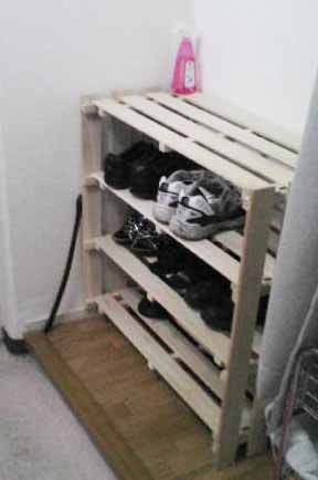 DIY Shoebox (Used Japanese "Sunoko")